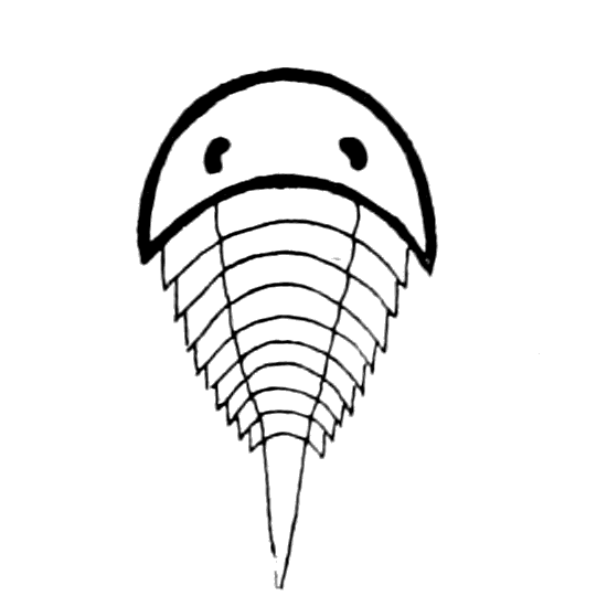 Extract from Fig. 5. Pseudoniscus aculeatus. → This file has been extracted from another image: File:Origin of Vertebrates Fig 005.png.